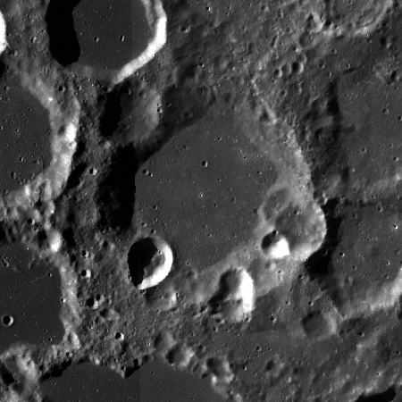 LROC . Jeans at center, satellites X, U, S and N at left border of image from top to bottom